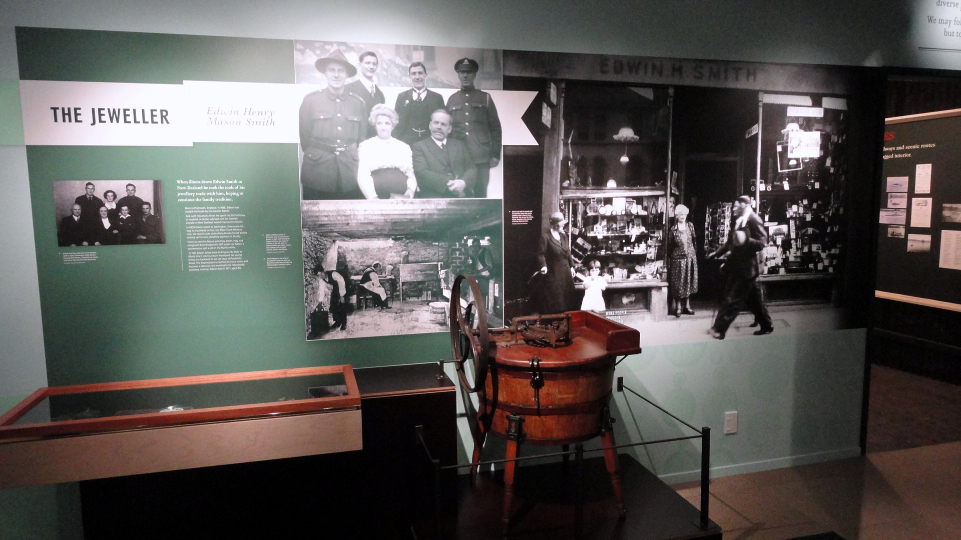 A photograph taken in the Voyager New Zealand Maritime Museum - Immigrants Exhibition - Edwin Henry Mason Smith, The Jeweller